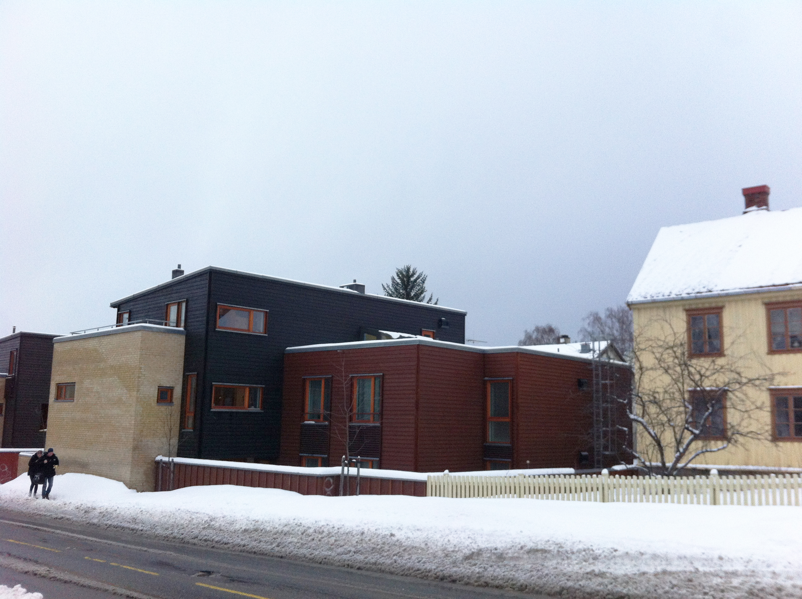 Nedre Singsakerslette student village, Trondheim, Norway. Awarded the Trondheim municipality architectural tradition prize 2009. Architects: Eggen Arkitekter AS; Per Knudsen Arkitektkontor AS; Løvetanna Landskap AS